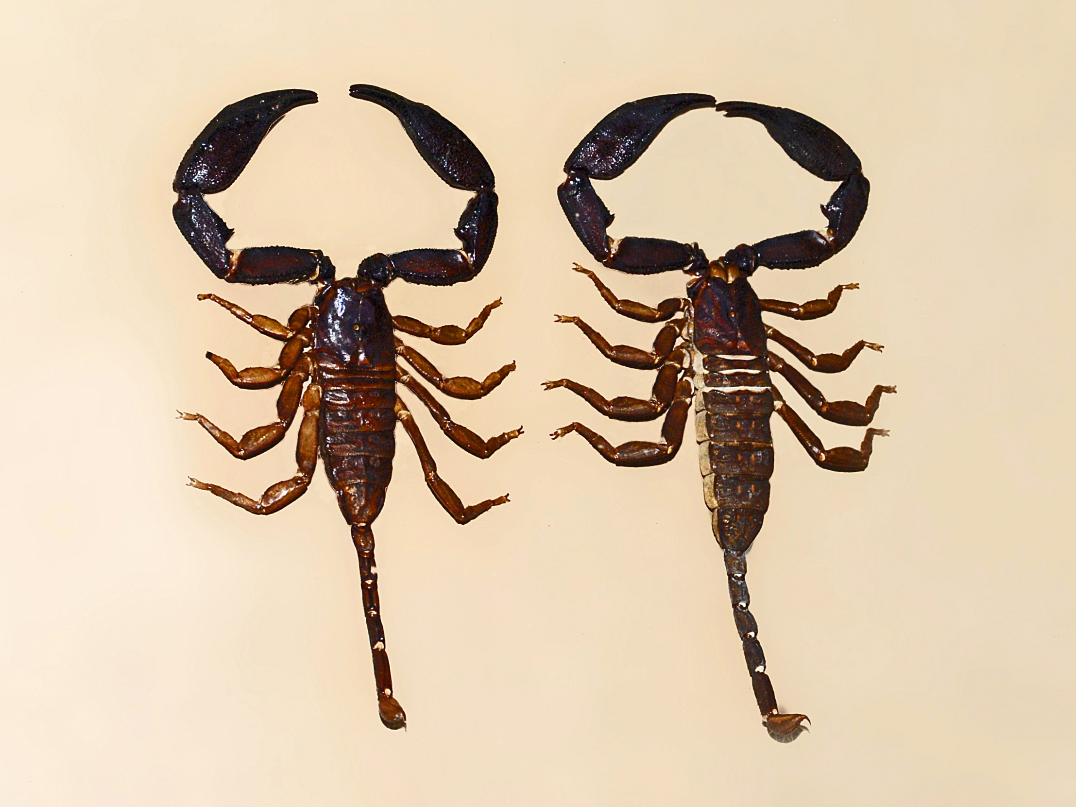 Liocheles karschii from New Guinea. Museum specimen